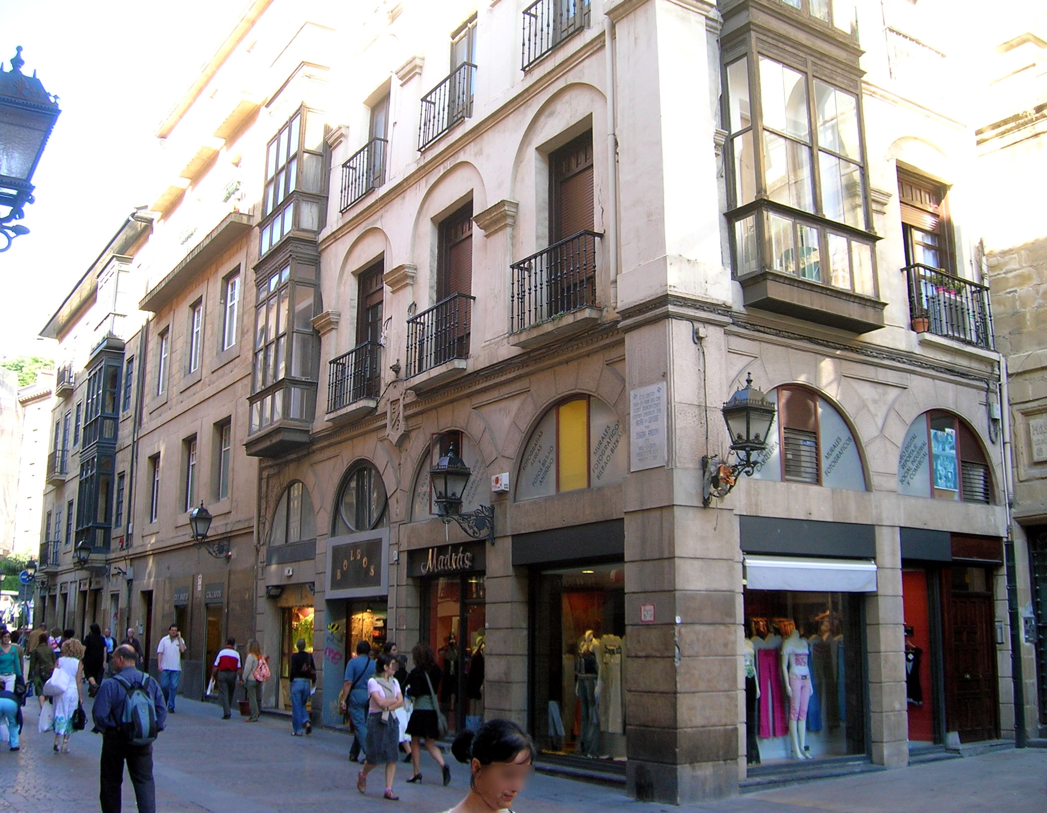 House where José Antonio Aguirre was born, in Bilbao Old Quarter.